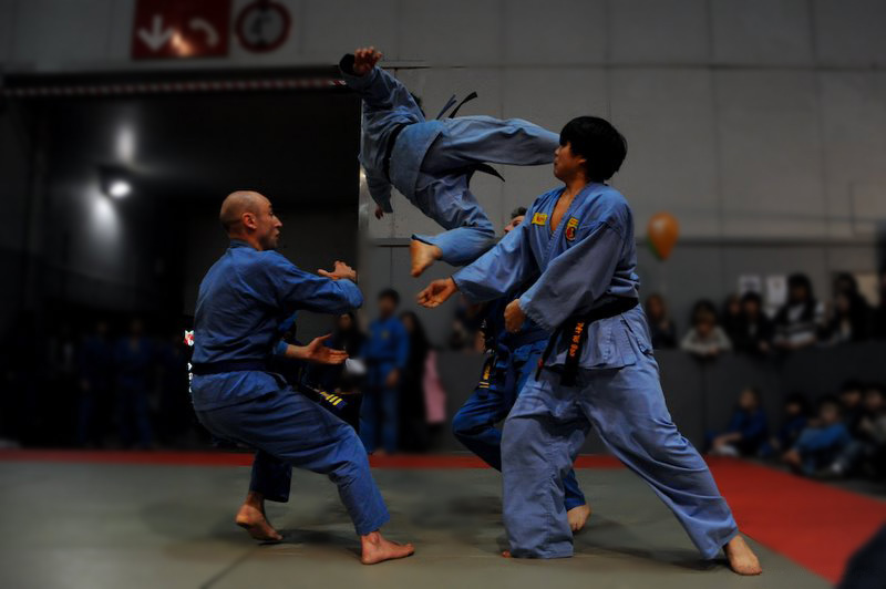 Vovinam - Viet Vo Dao Figure